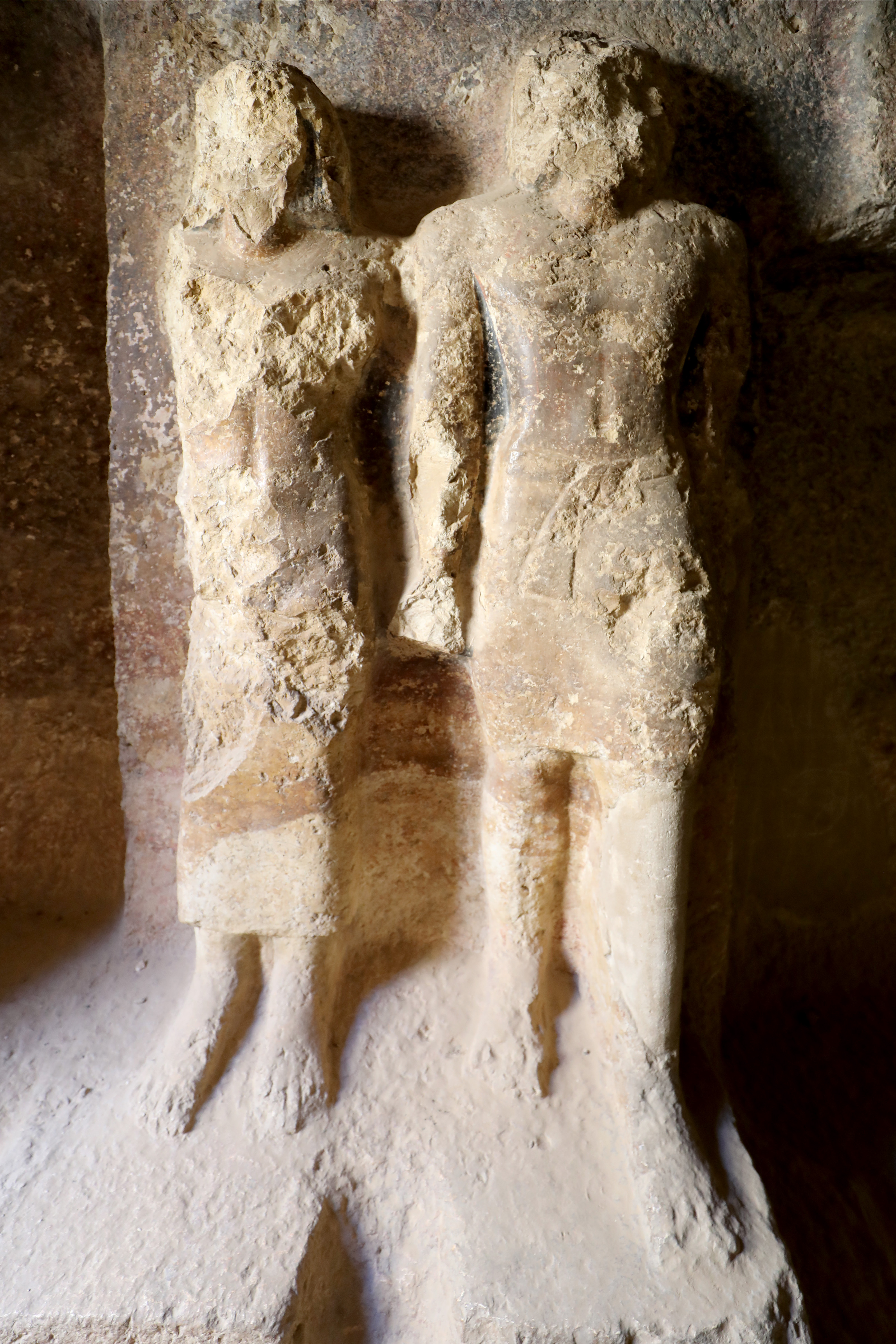 Double statue of Kai-Khent and his wife, Tomb of Kai-khent (A2), al-Hammamiya necropolis, Egypt